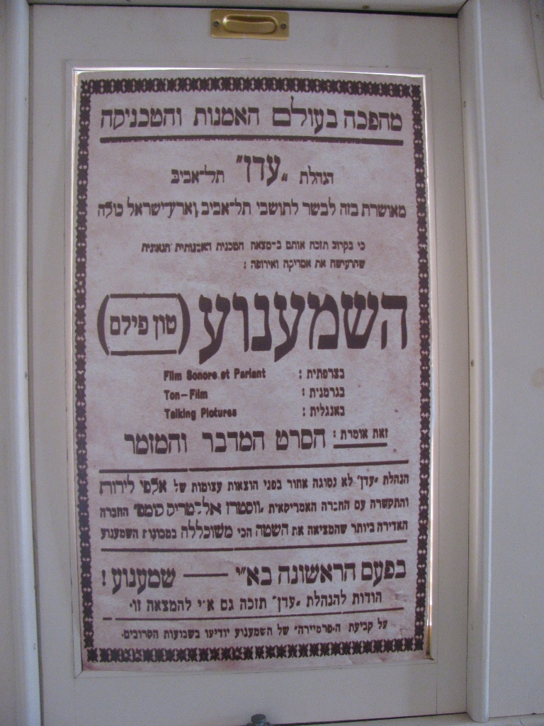 World invention, Ahshmanoa film Singing